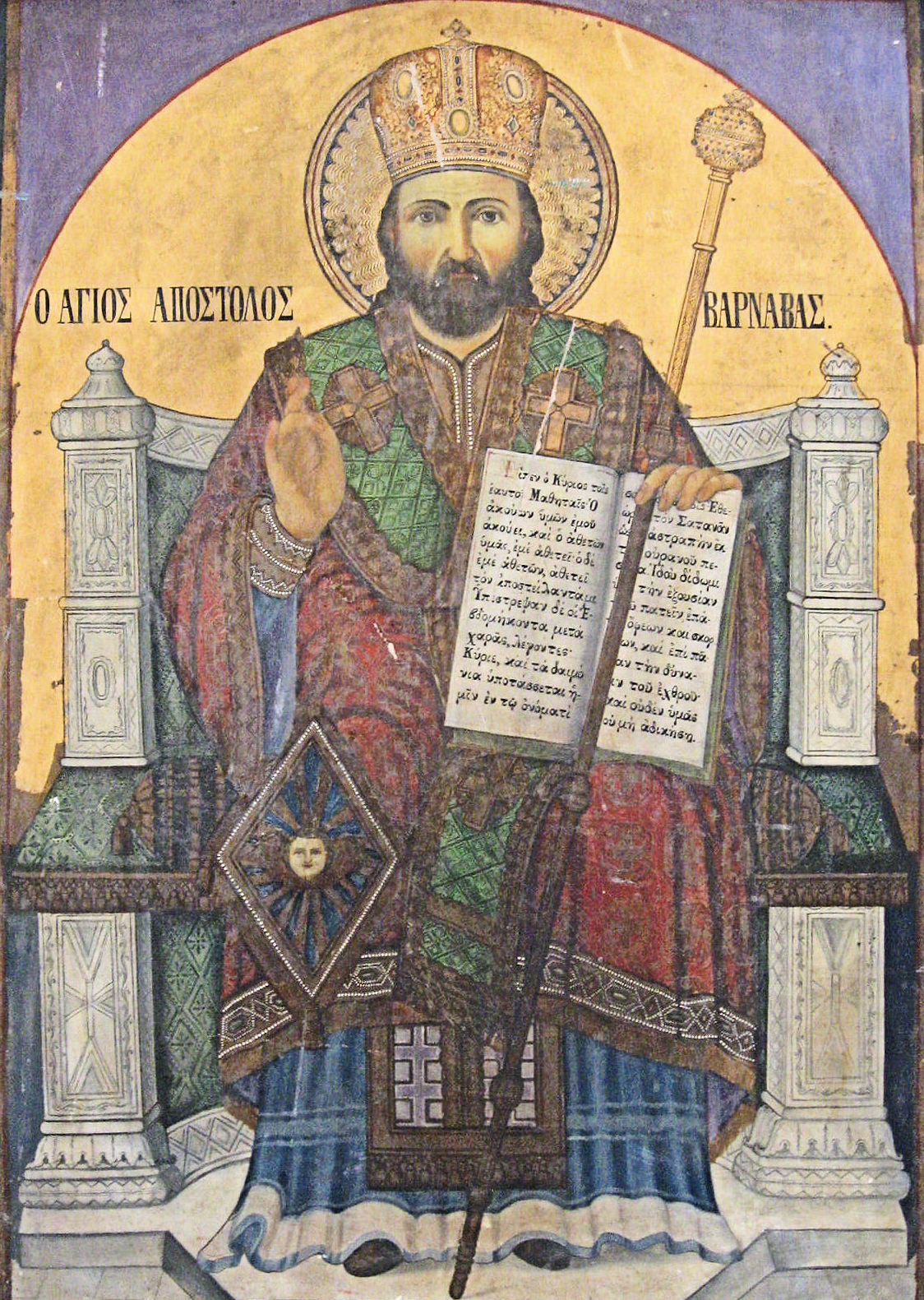 Icon of St. Barnabas (1921), Museum St. Barnabas Salamis (Cyprus).